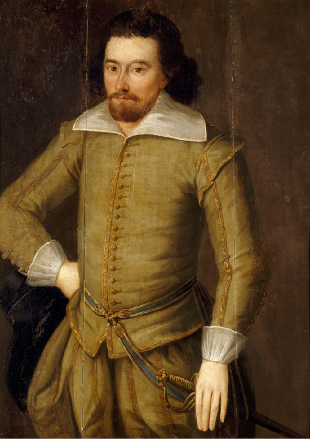 Thomas Luttrell (1584–1644) of Dunster Castle, British (English) School, National Trust, Dunster Castle collection, ref: 726068. Oil on panel, 91.4 x 66 cm. Provenance: donated in 1981 by Lieutenant-Colonel Geoffrey Walter Fownes Luttrell.